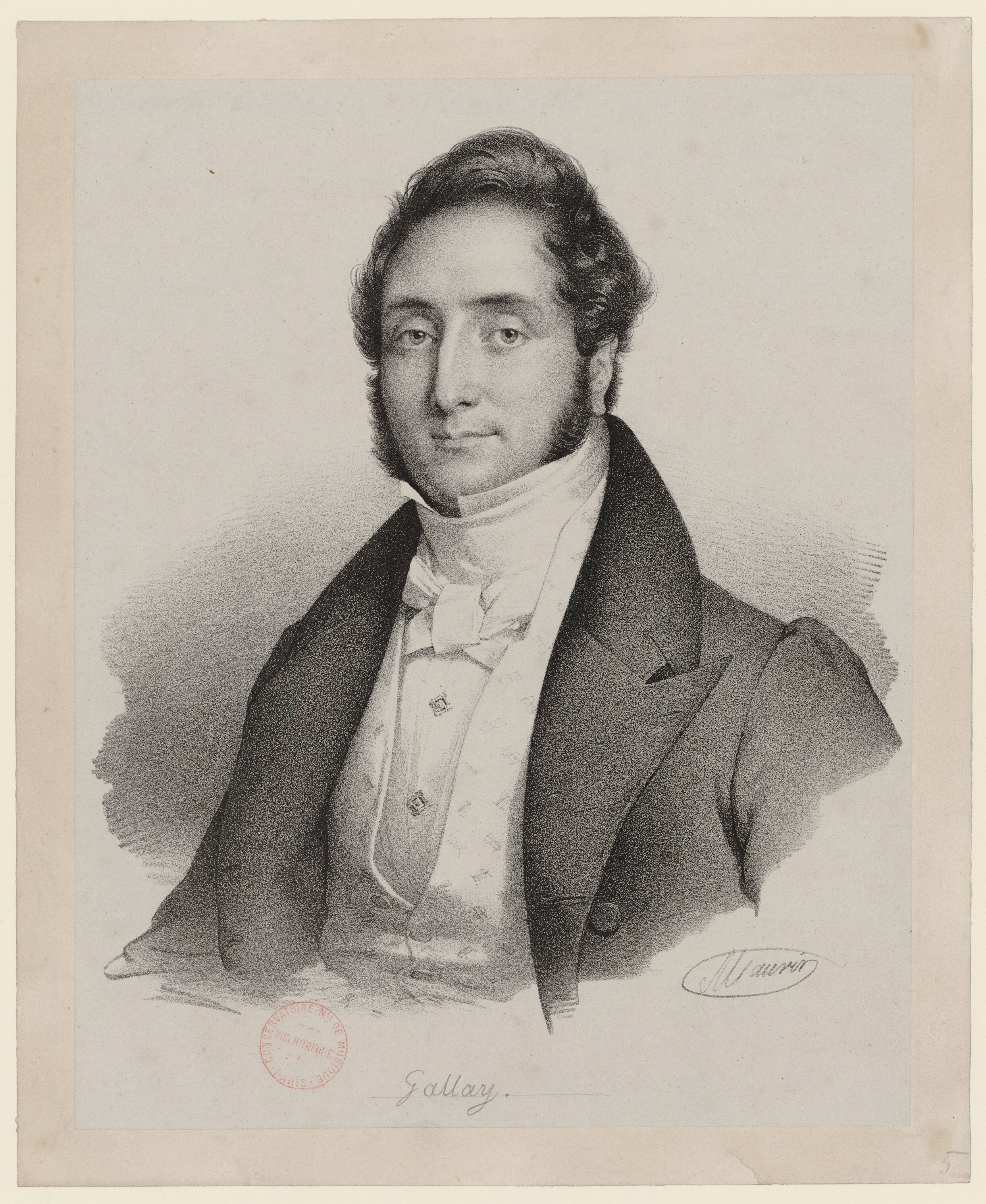 Portrait of French horn player Jacques François Gallay (1795—1864)